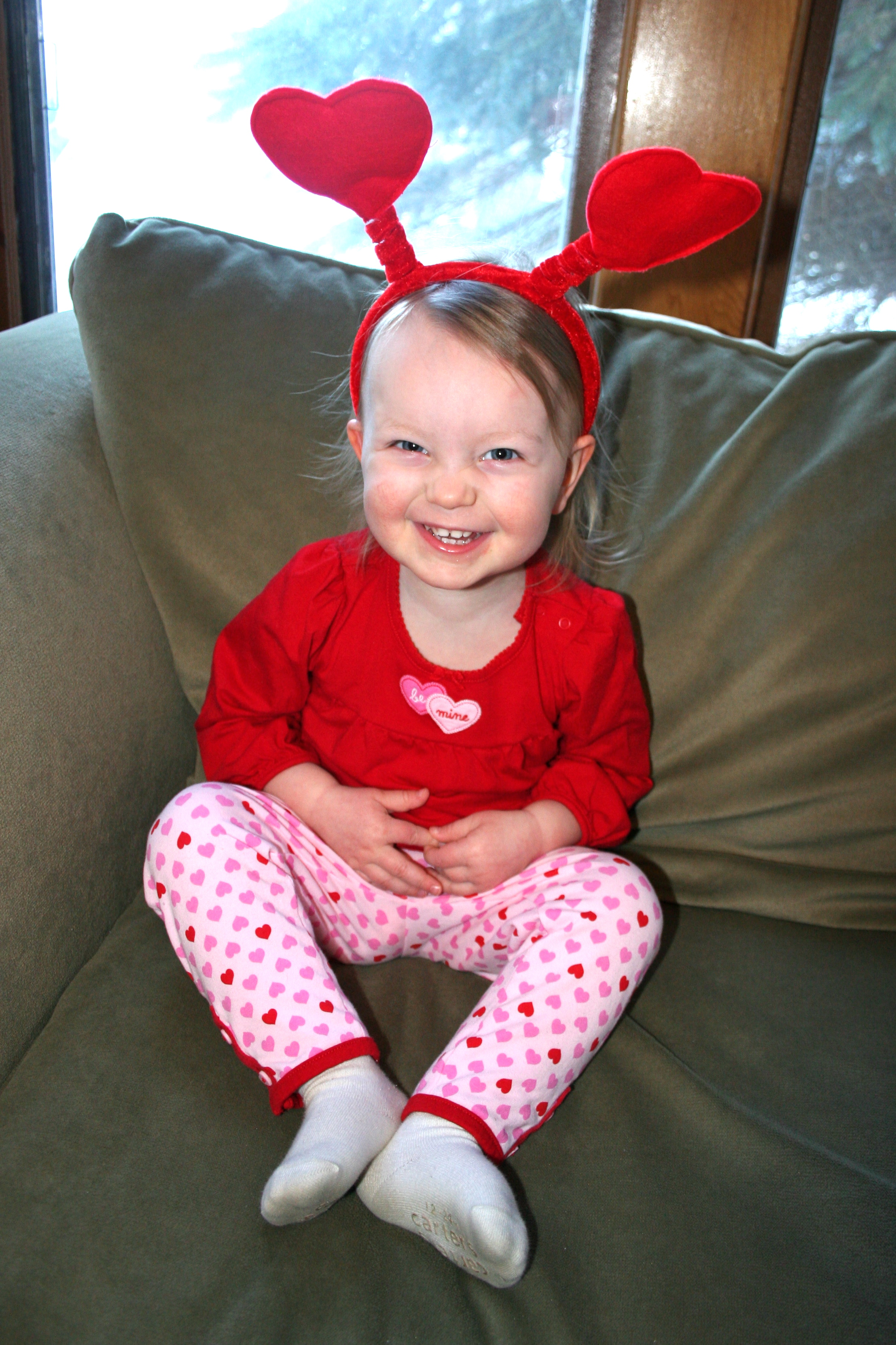 Happy Valentine's Day!